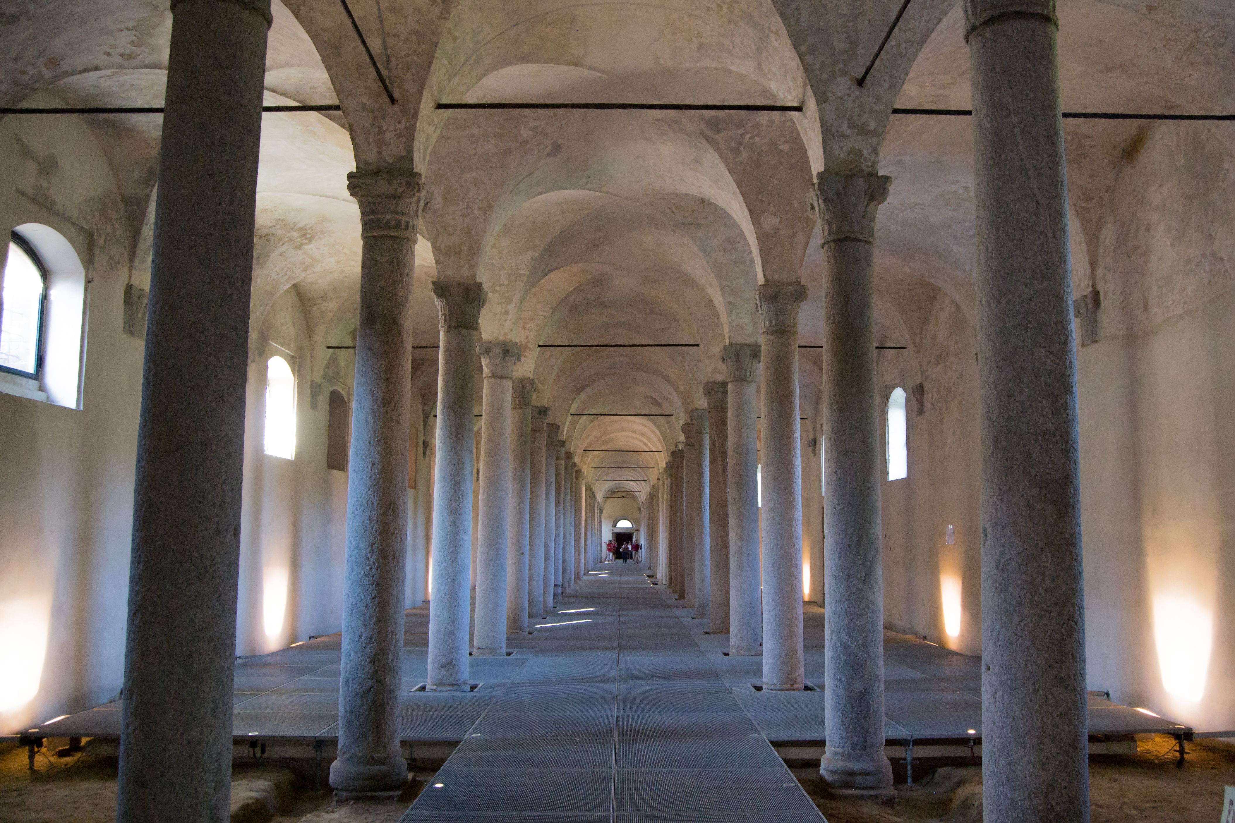 Horsestable of Sforza Castle in Vigevano